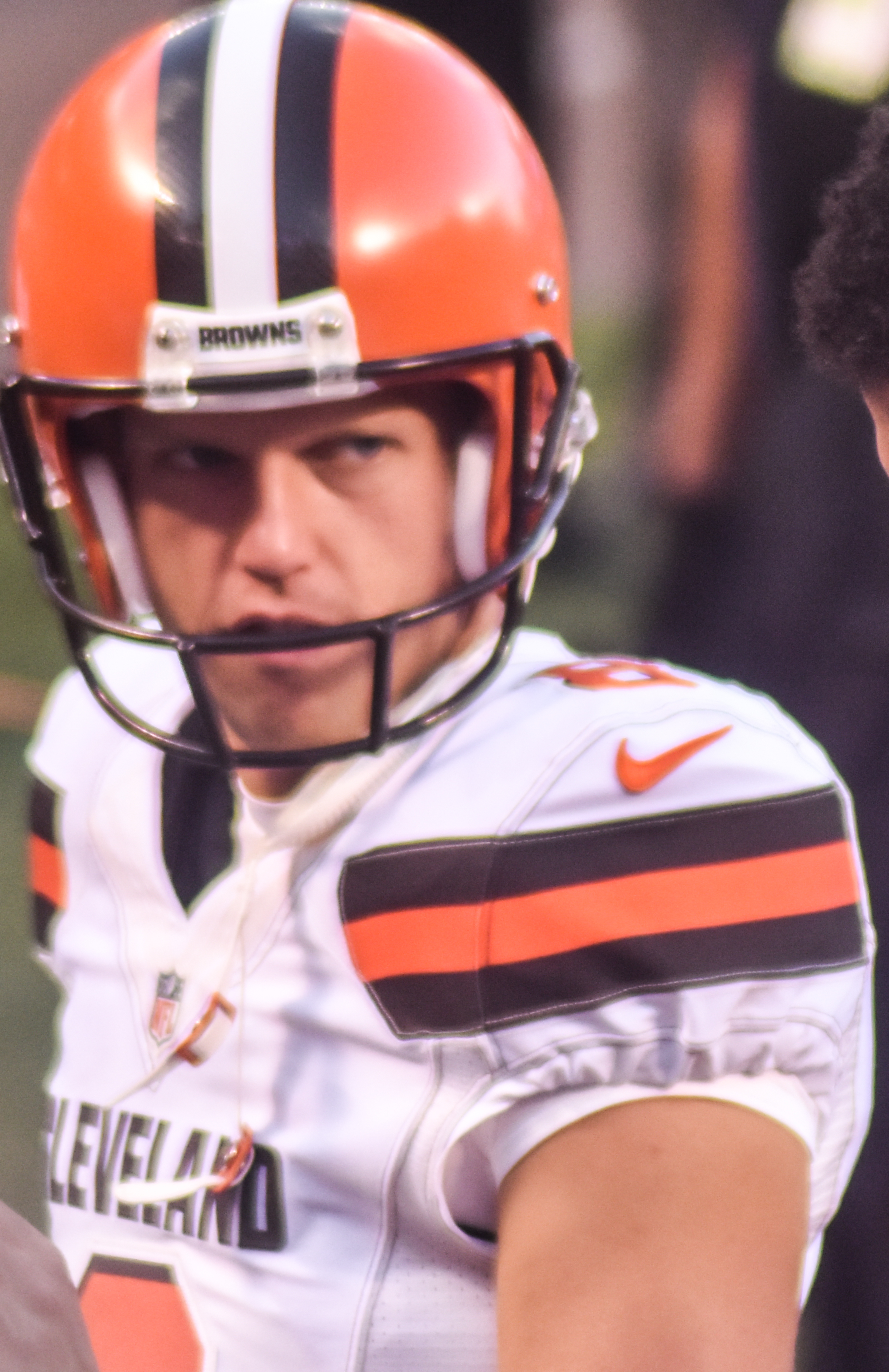 Andy Lee and Billy Winn